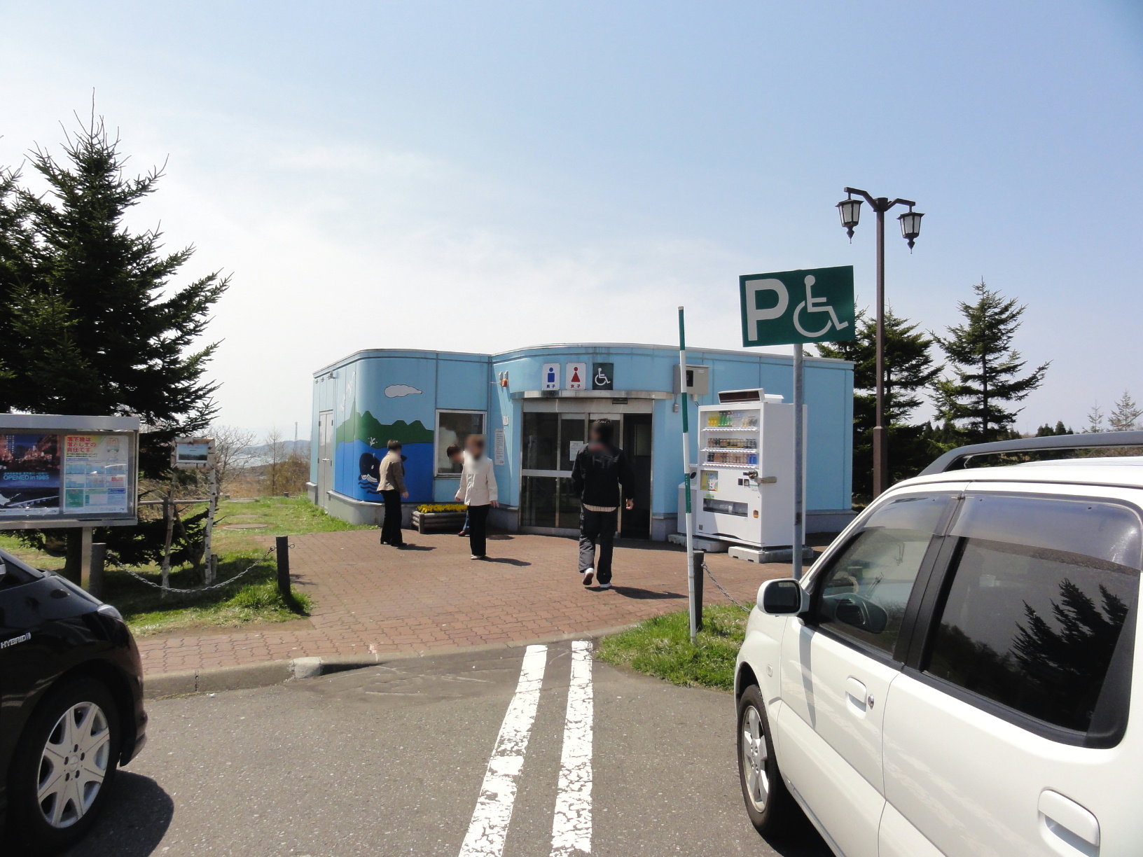 Hokkaidō Expressway Moto-Wanishi Parking Area for Hakodate